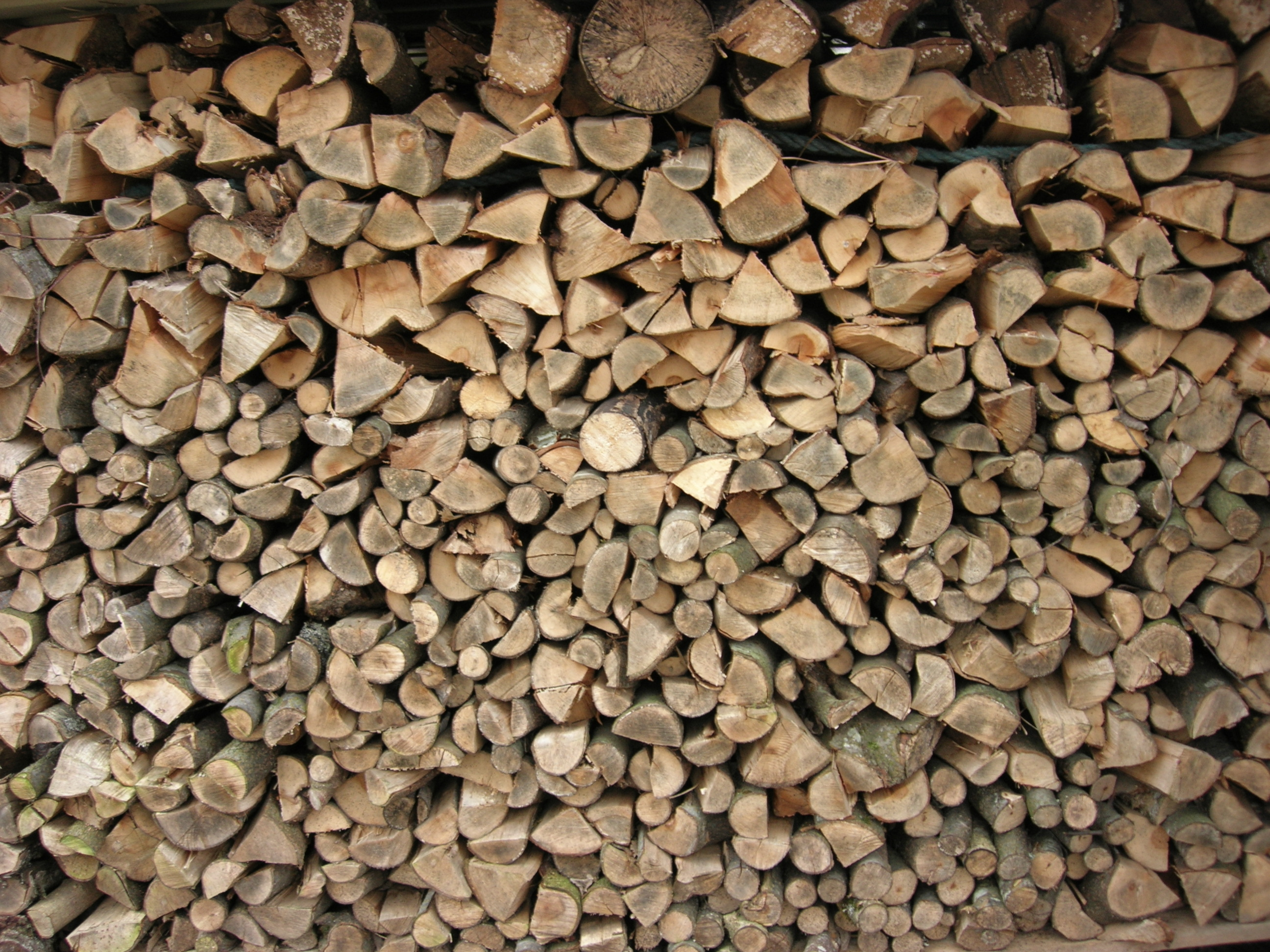 A pile of wood for burning. Photo: Lars Simonsen